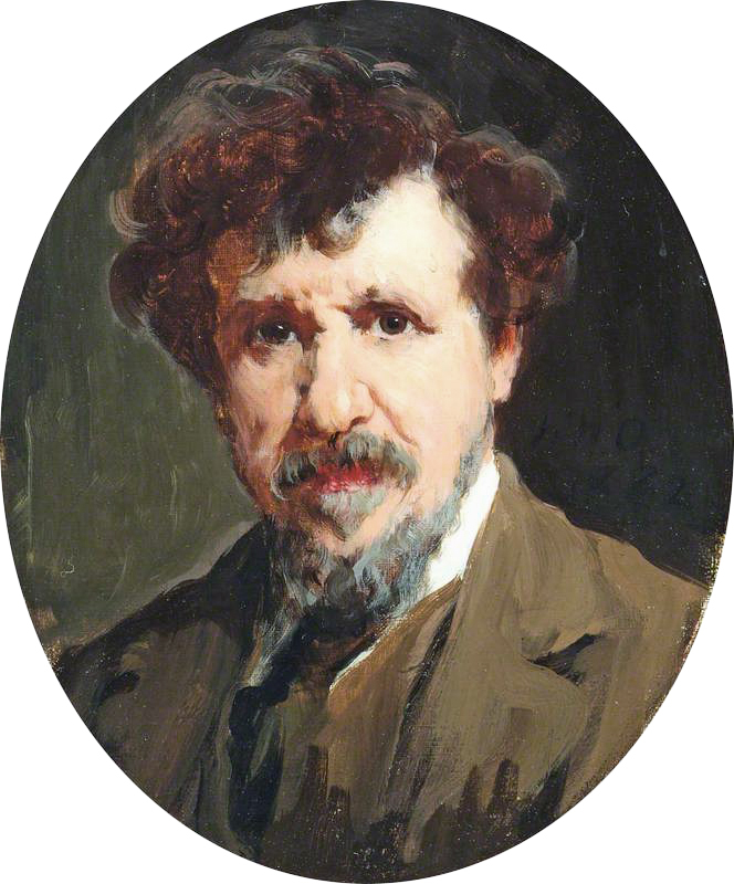 Thomas Oldham Barlow (1824-1889), RA